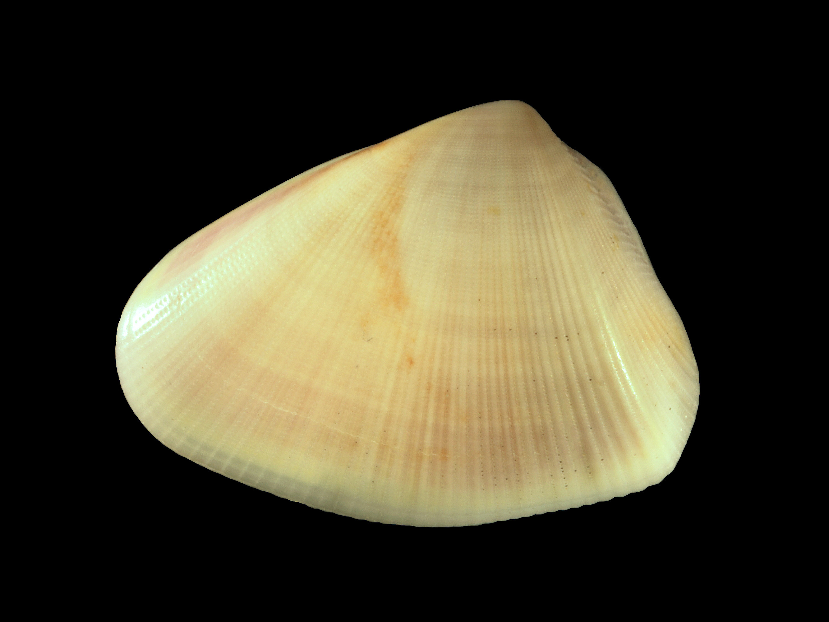 From the Atlantic coast of Dominica (W.I.)